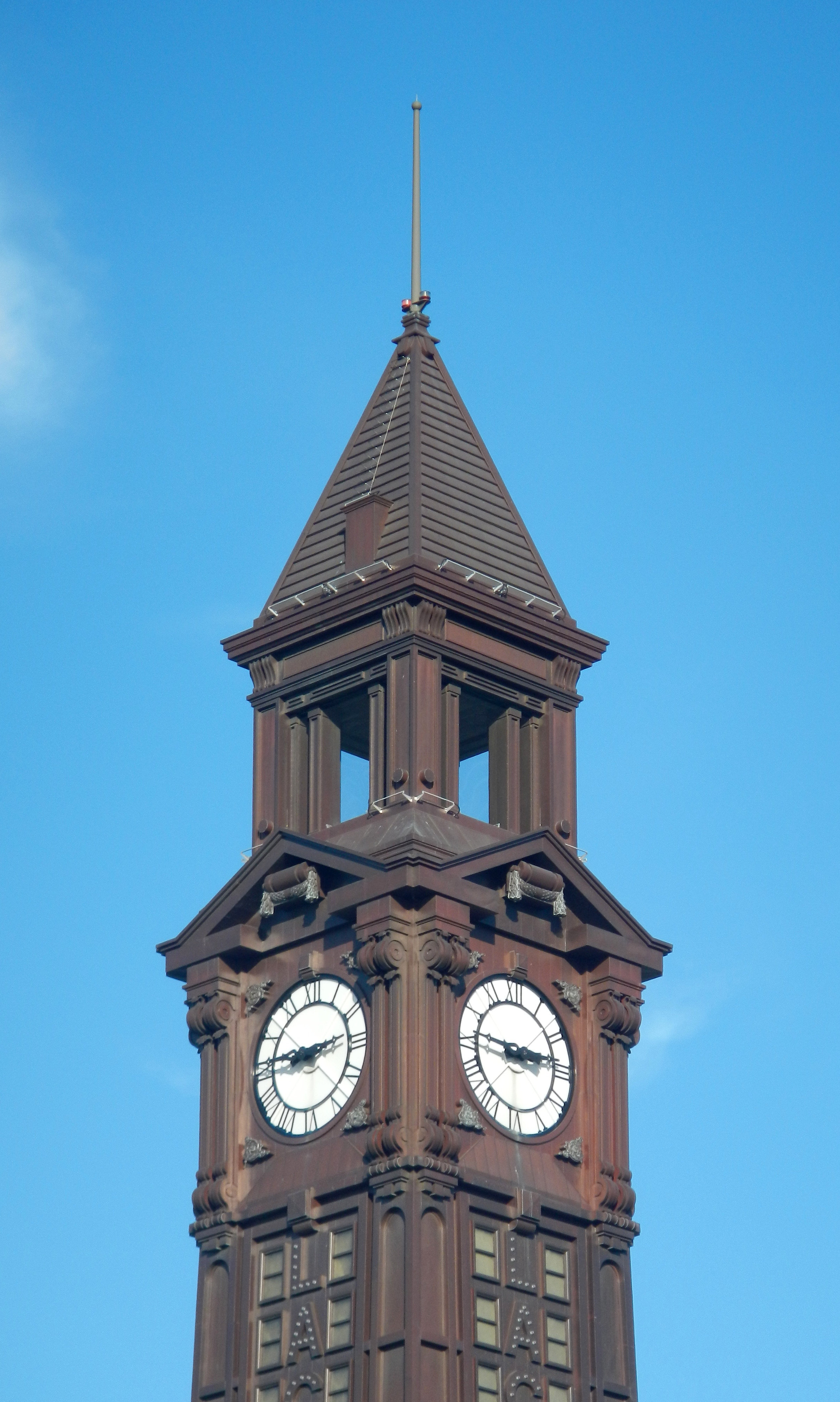 Looking north at station tower on a sunny early afternoon.